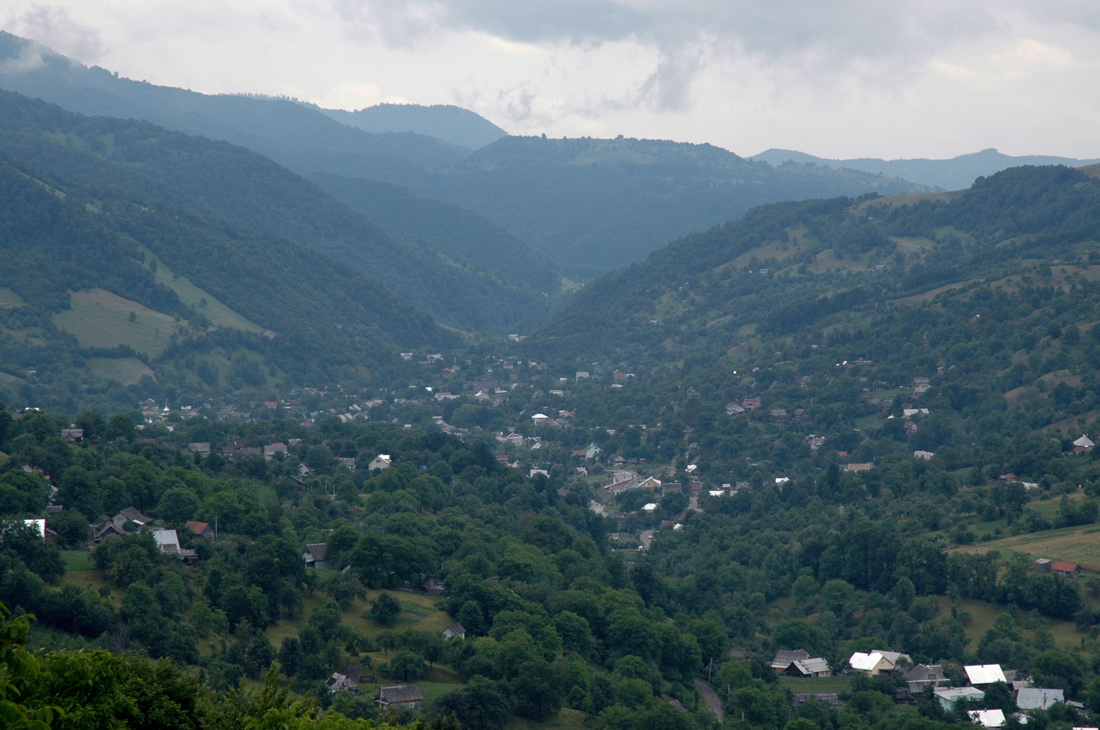 Panoramic view of Kosivska Polyana